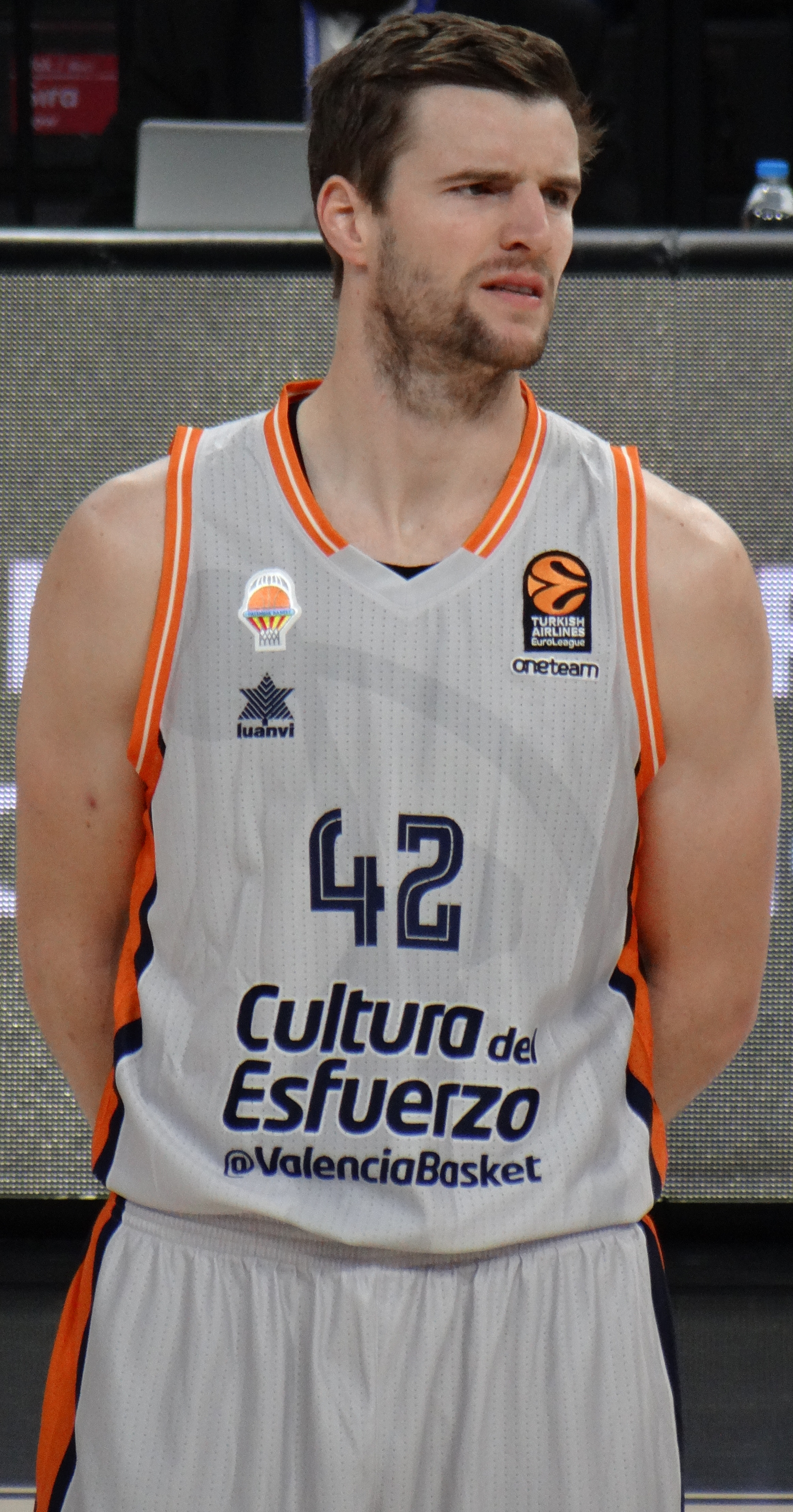 Aaron Doornekamp 42 Valencia Basket EuroLeague 20180201